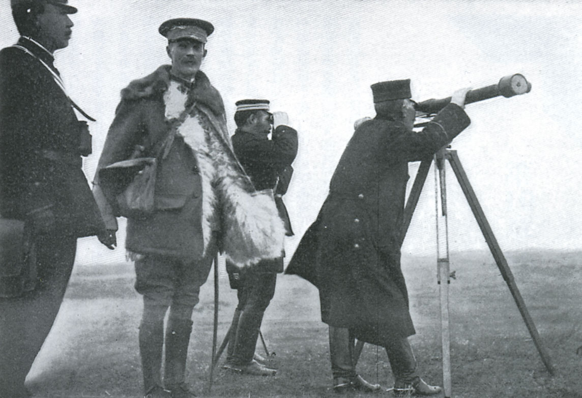 Japanese General Kuroki Tamemoto and British Officier Sir Ian Hamilton during the Battle of Shaho